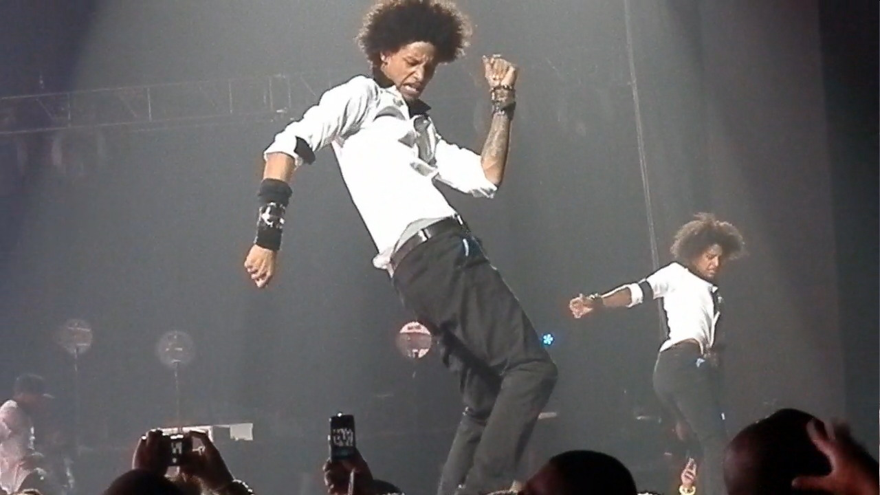 Les Twins performing at Revel Ovation Hall in Atlantic City on May 28, 2012